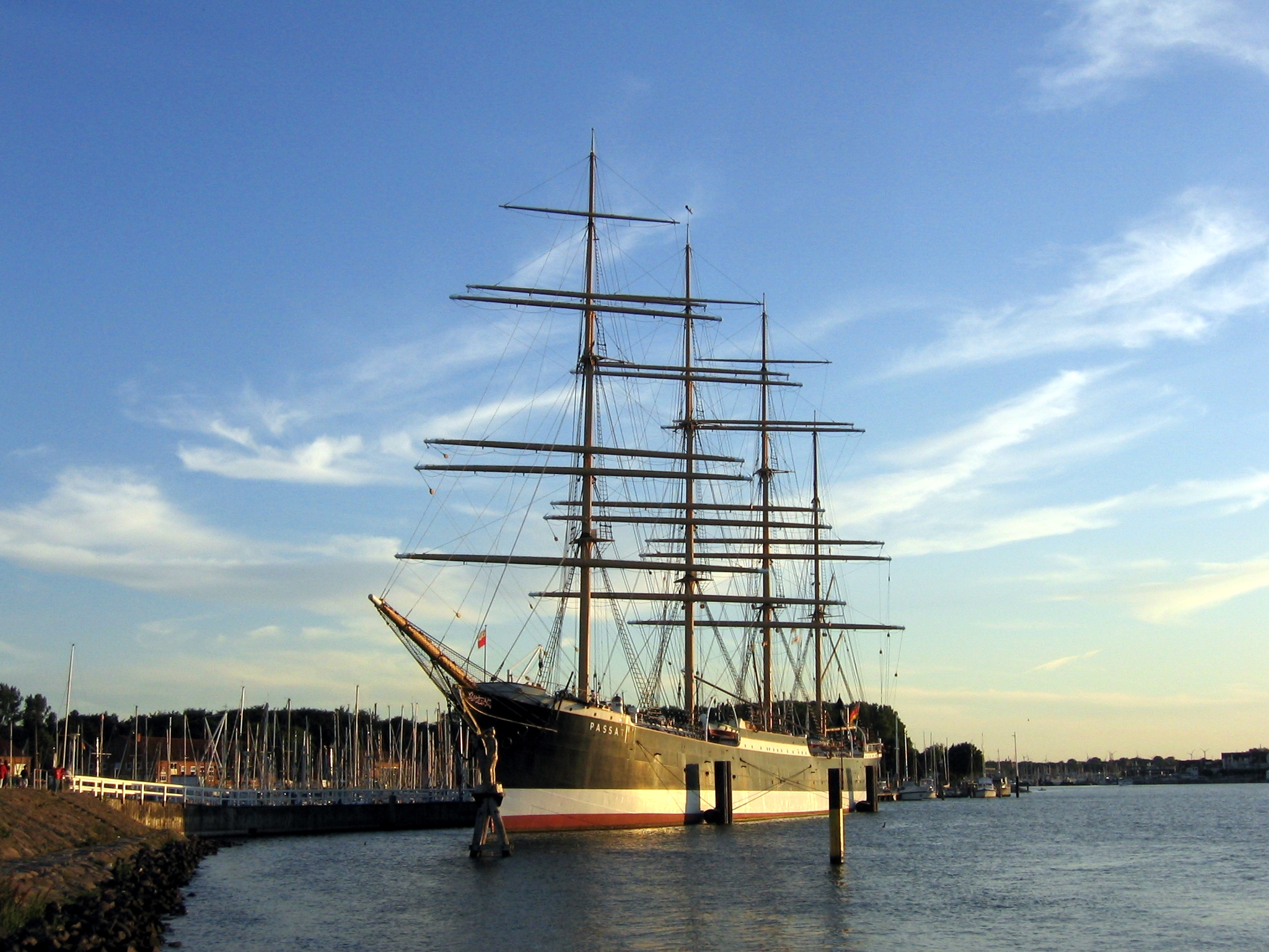 Four masted steel barque Passat, Travemünde